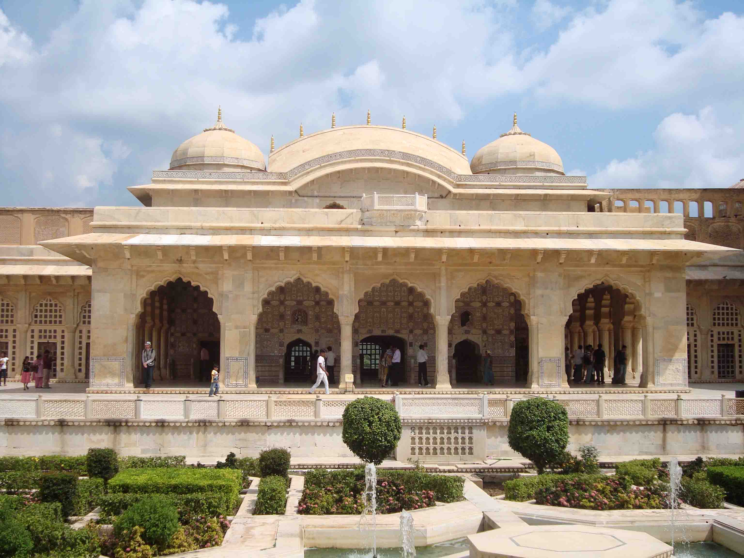 Amber Palace on Hill, Amber